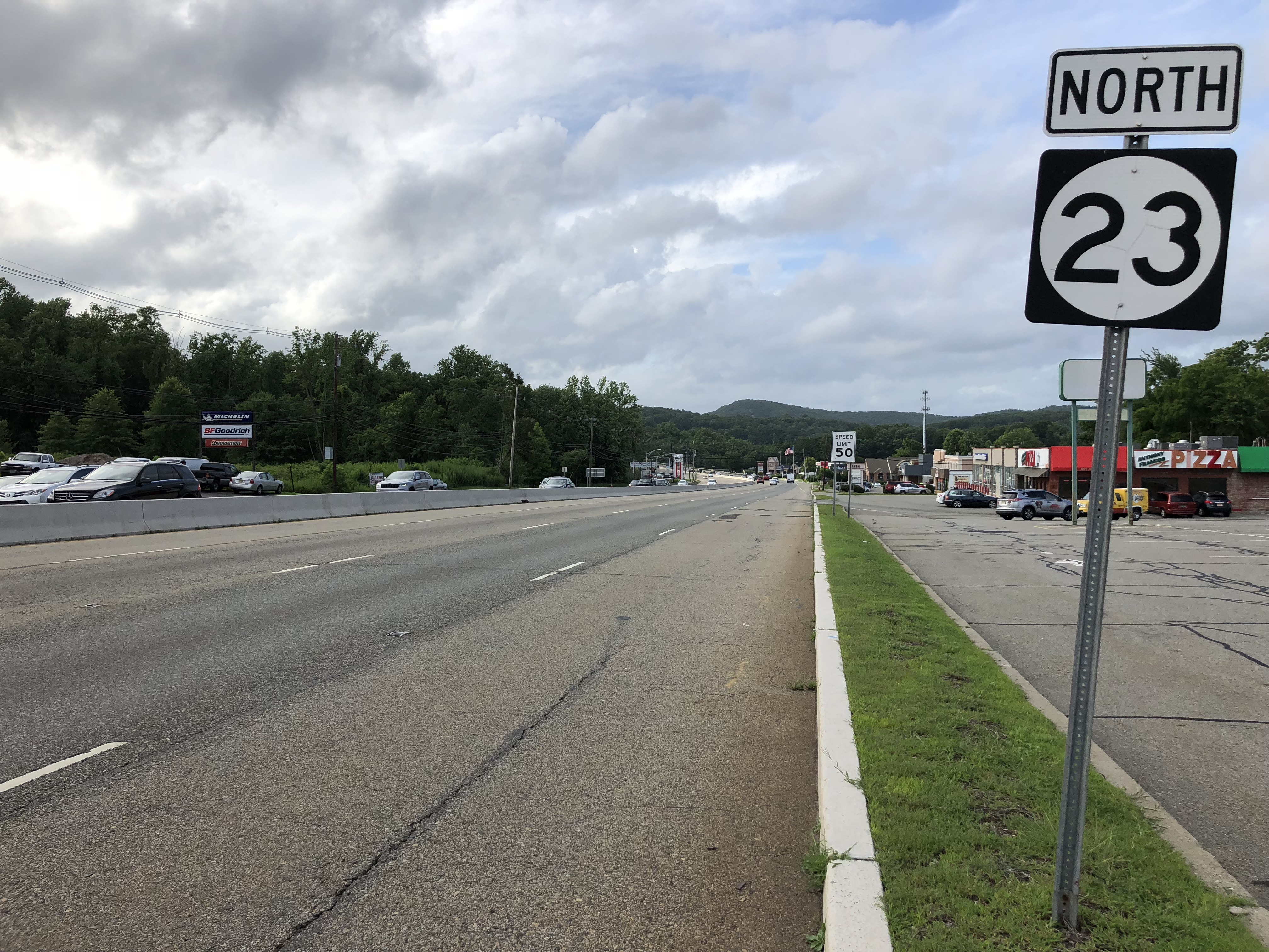 View north along New Jersey State Route 23 at Morris County Route 618 (Kinnelon Road/Kiel Road) in Butler, Morris County, New Jersey